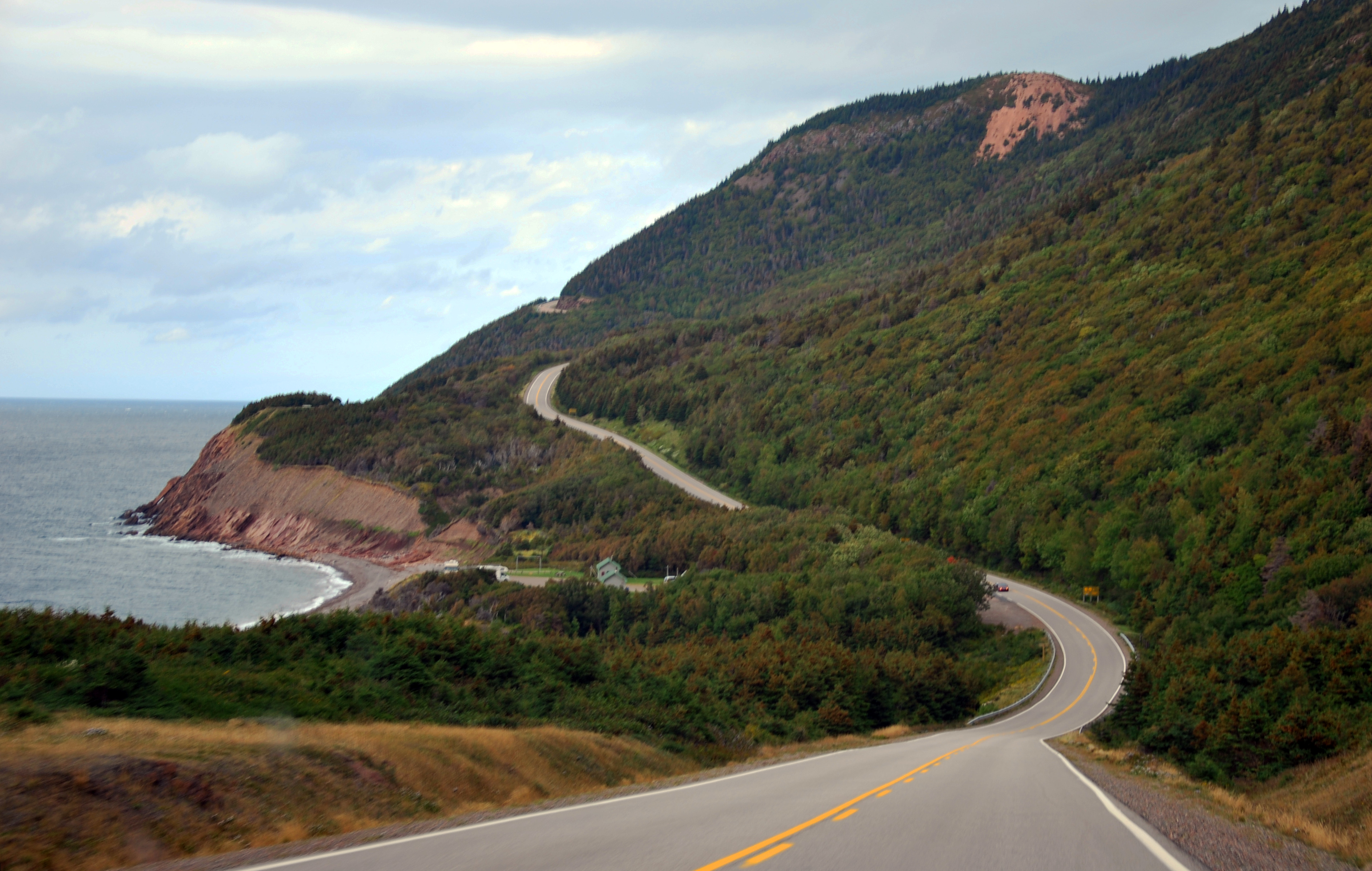 Nova Scotia Cape Breton Island Cabot Trail 2009